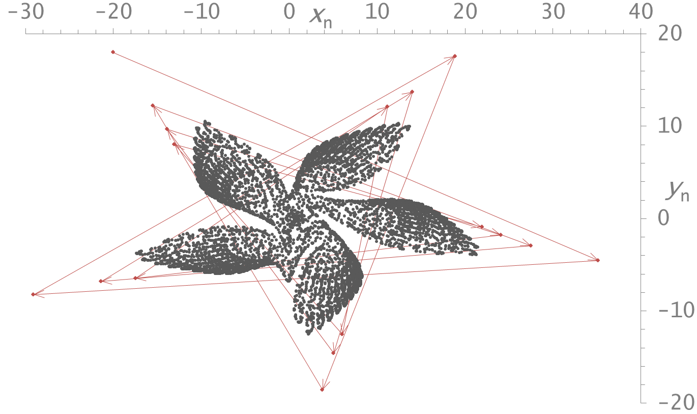 Attractor and orbit of Gumowski-Mira map. The used map and parameters are the same as File:GM map phase space plot 2.png. The orbit of red plots is attracted to the attractor of black plots.